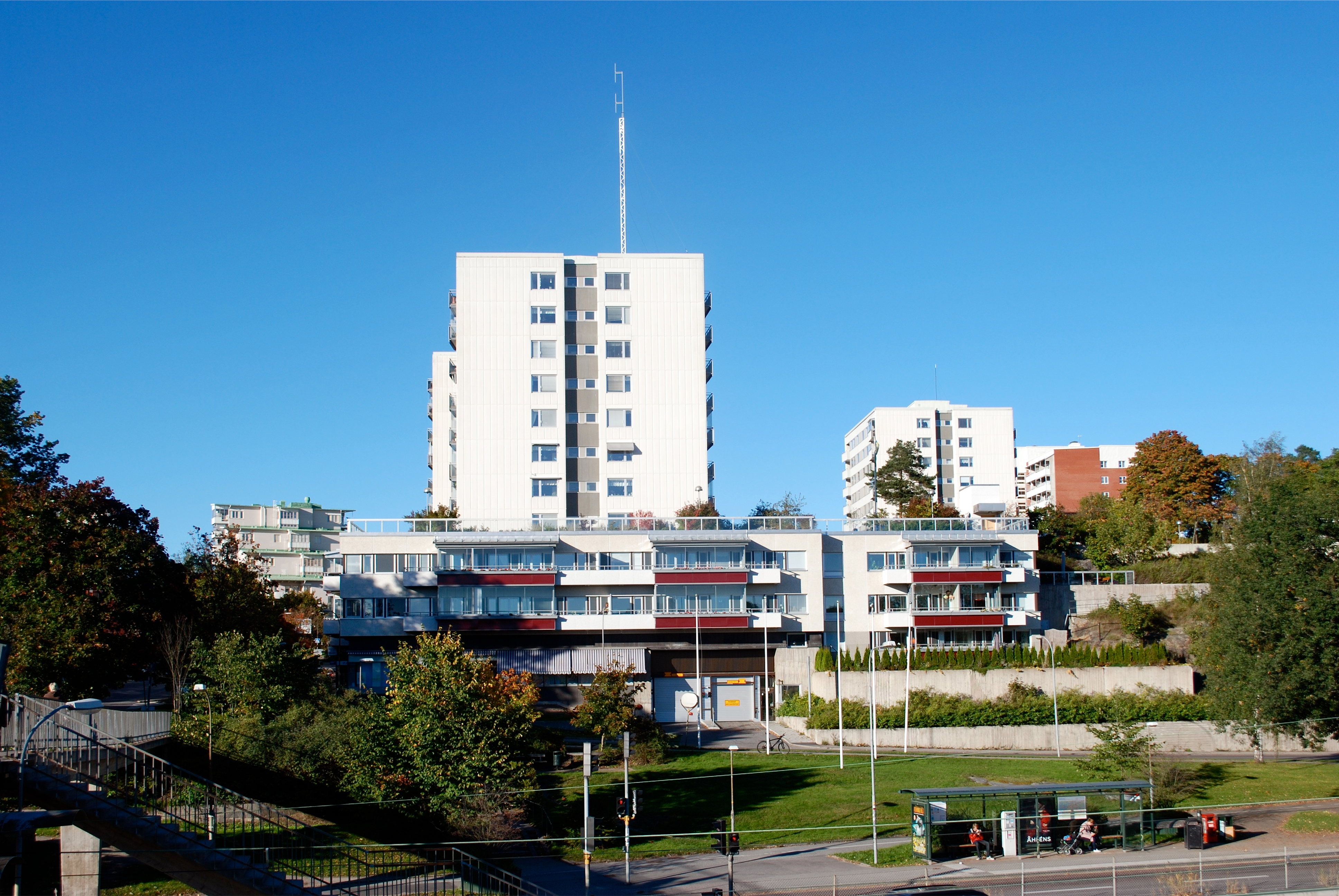 Finntorp.